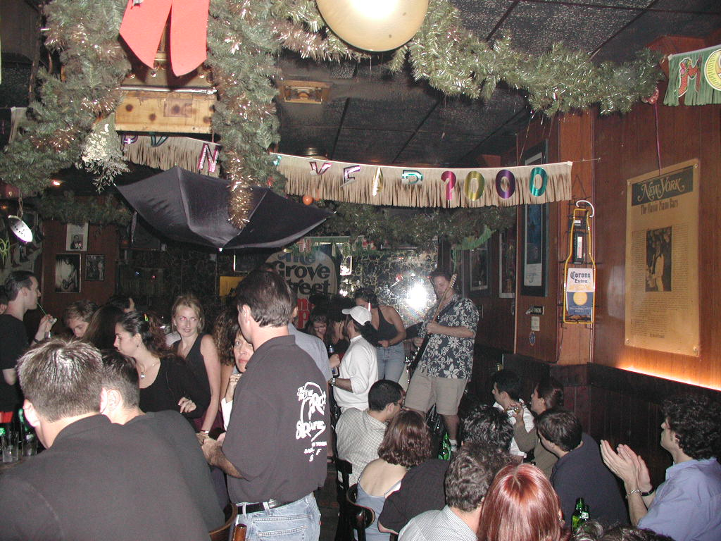 Arther's Tavern